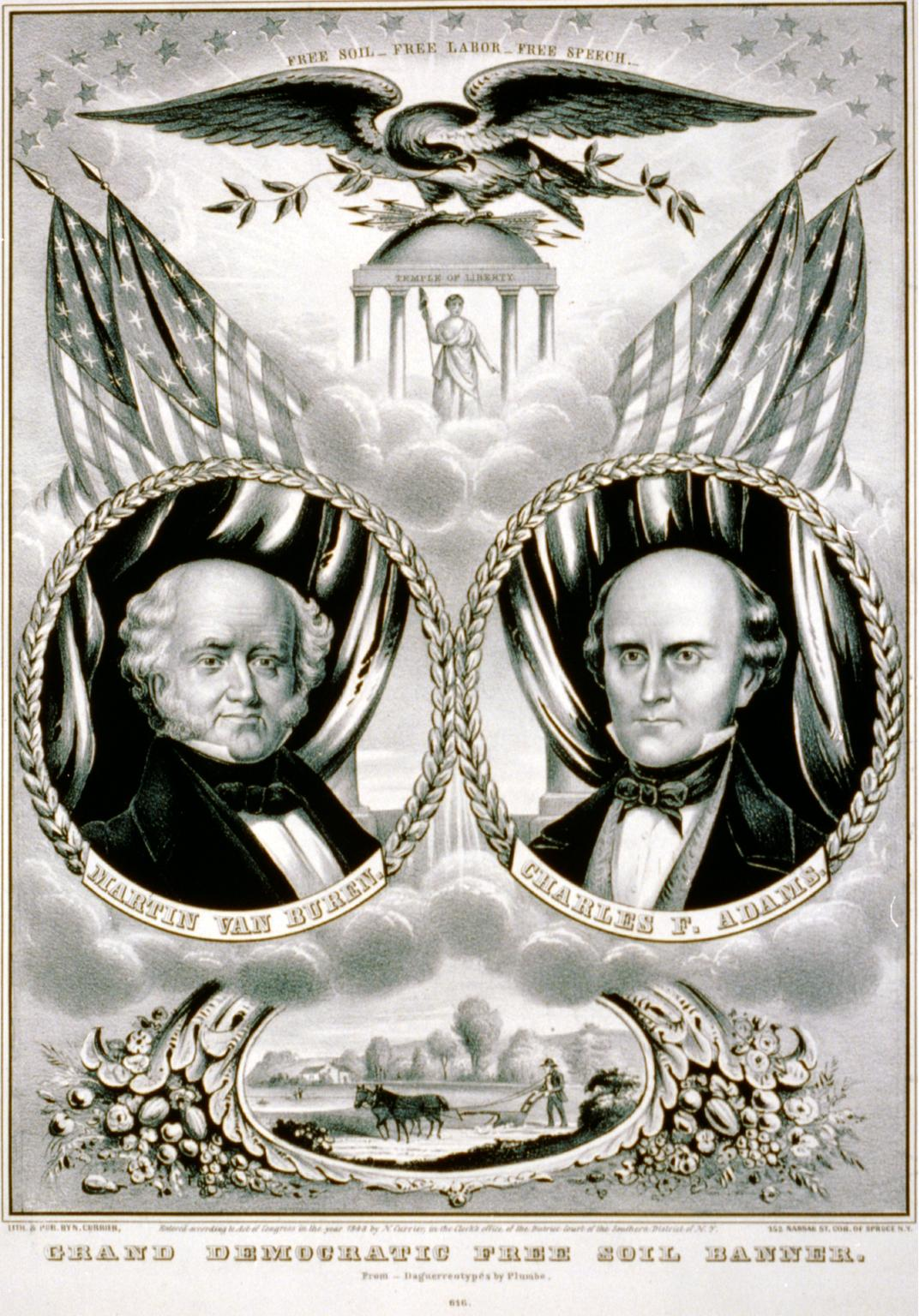 Print shows a campaign poster for Free Soil Party candidates Martin Van Buren and Charles Francis Adams in the presidential race of 1848, under slogan "Free Soil, Free Labor, "Free Speech".